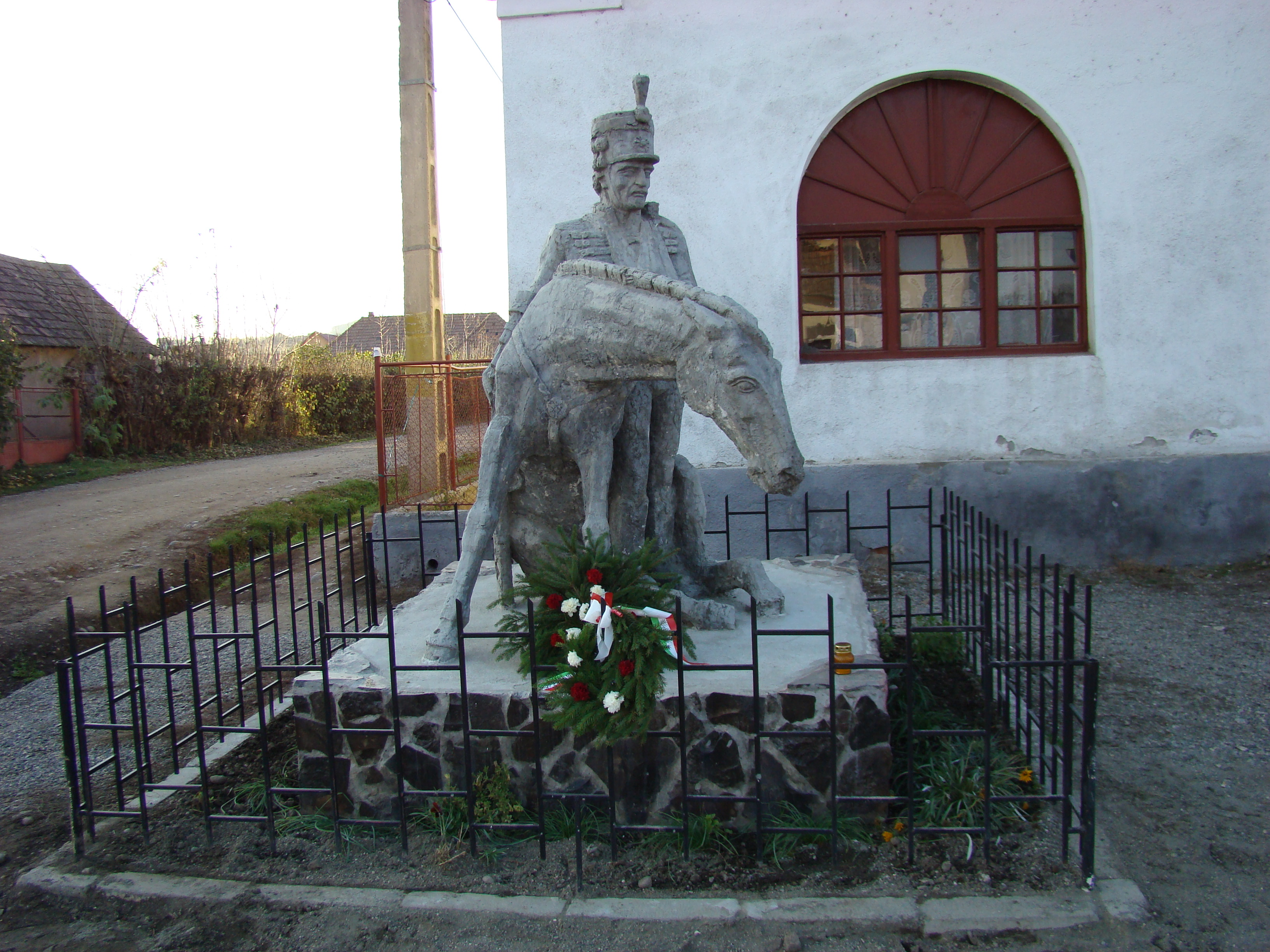 Statue of injured hussar in Center of Glodeni